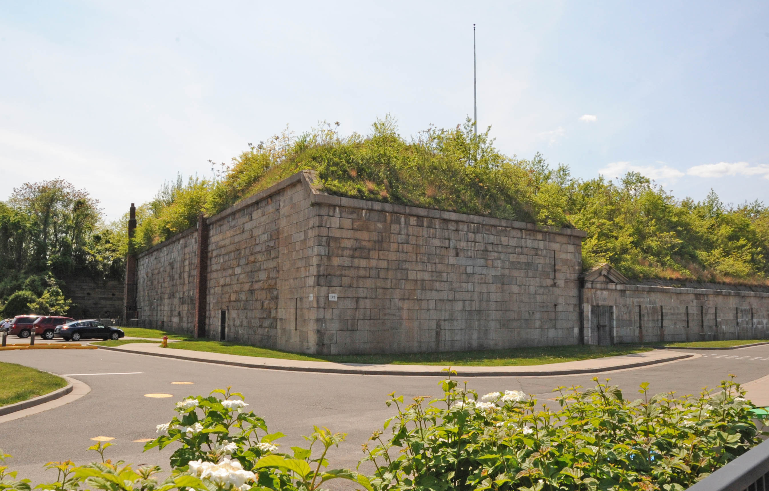 FORT TOMPKINS QUADRANGLE IS A FORT WITHIN THE CONFINES OF A LARGER FORT WADSWORTH COMPLEX. THE FORT WAS BUILT BETWEEN 1859 AND 1870 AND WAS DESIGNED TO PROTECT BATTERY WEED BELOW AT WATER LEVEL. IT HOUSED ONLY ONE GUN AND WAS MAINLY USED AS A PARADE GROUND AND SOLDIERS’ QUARTERS.